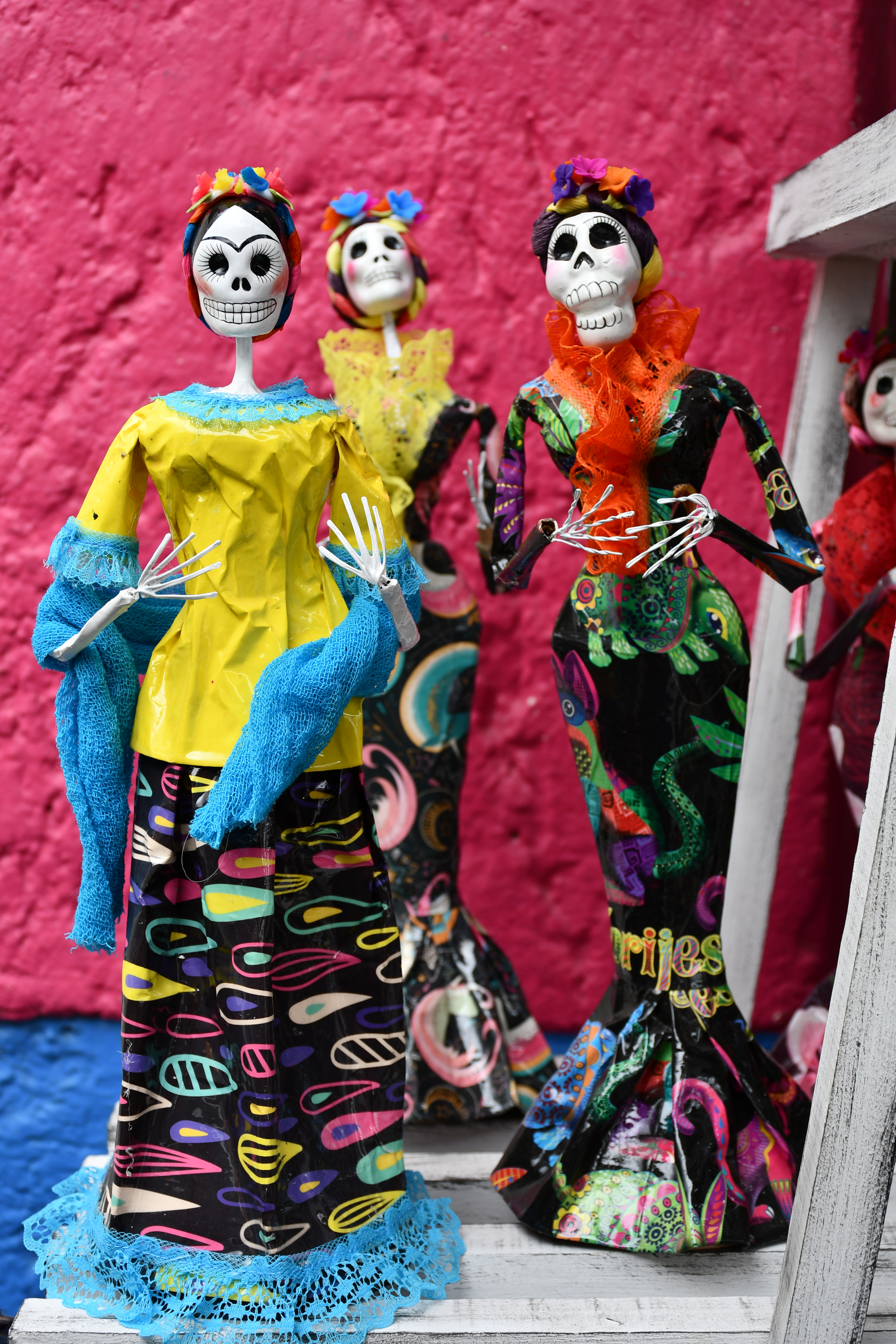 Effigies of La Calavera Catrina at Tonalá's tianguis (market), State of Jalisco, Mexico, before the Day of the Dead.